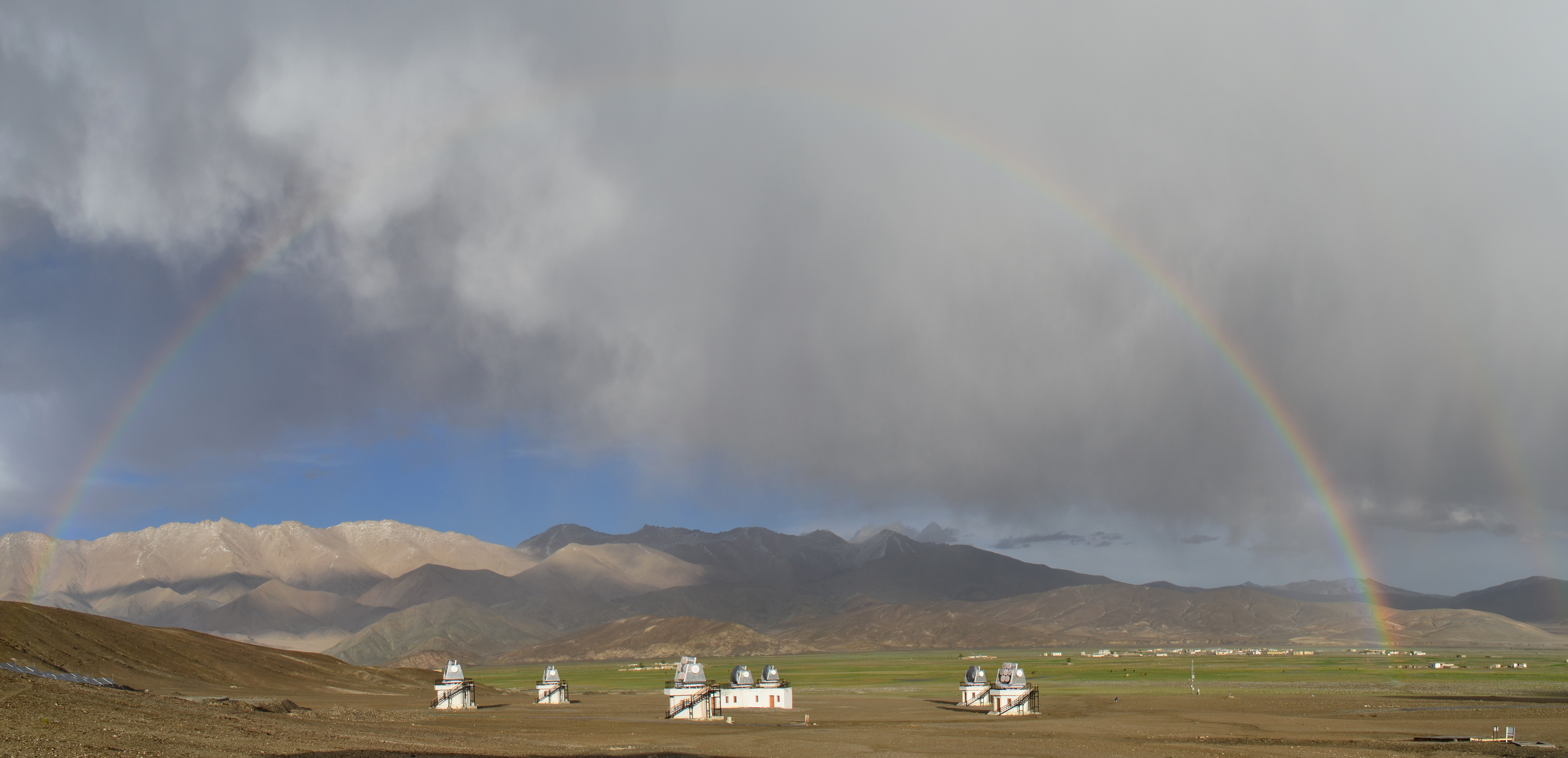 High Energy Gamma Ray Telescope (HAGAR), Hanle, Ladakh, India. It belongs to Indian Astronomical Observatory at Hanle.